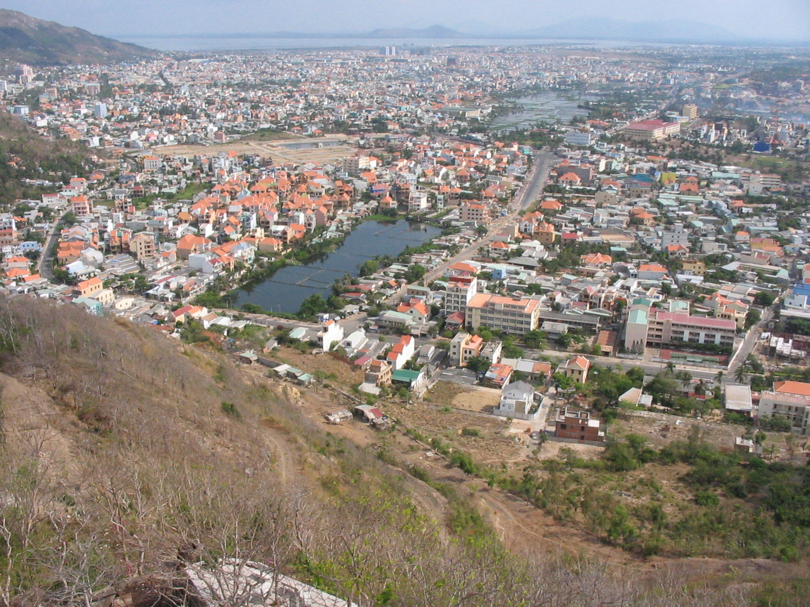 Vũng Tàu city from above.